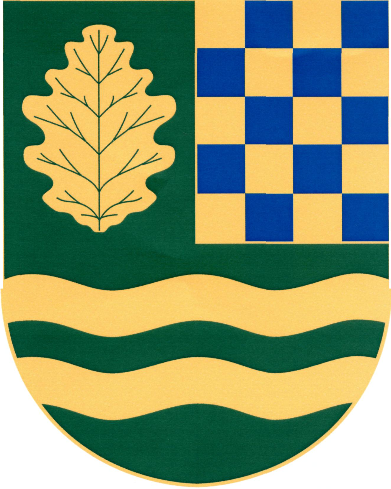 Coat of amrs of Nový Vestec , District Prague East, Czech Republic